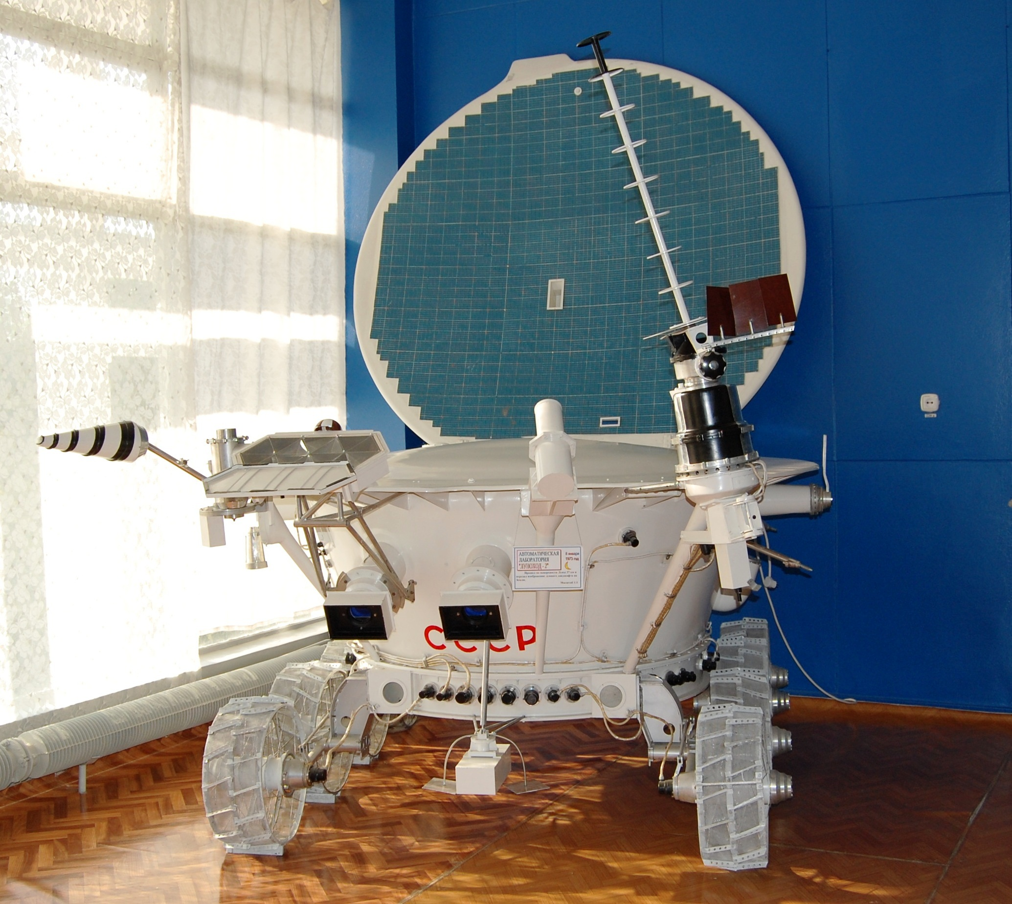 Automatic laboratory Lunokhod-2, the mockup on a scale of 1:1 (The third navigational TV-camera and magnetometer rod are absent).